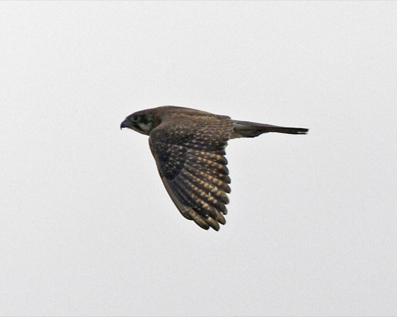 Brown Falcon (Falco berigora). Brisbane Ranges, Victoria